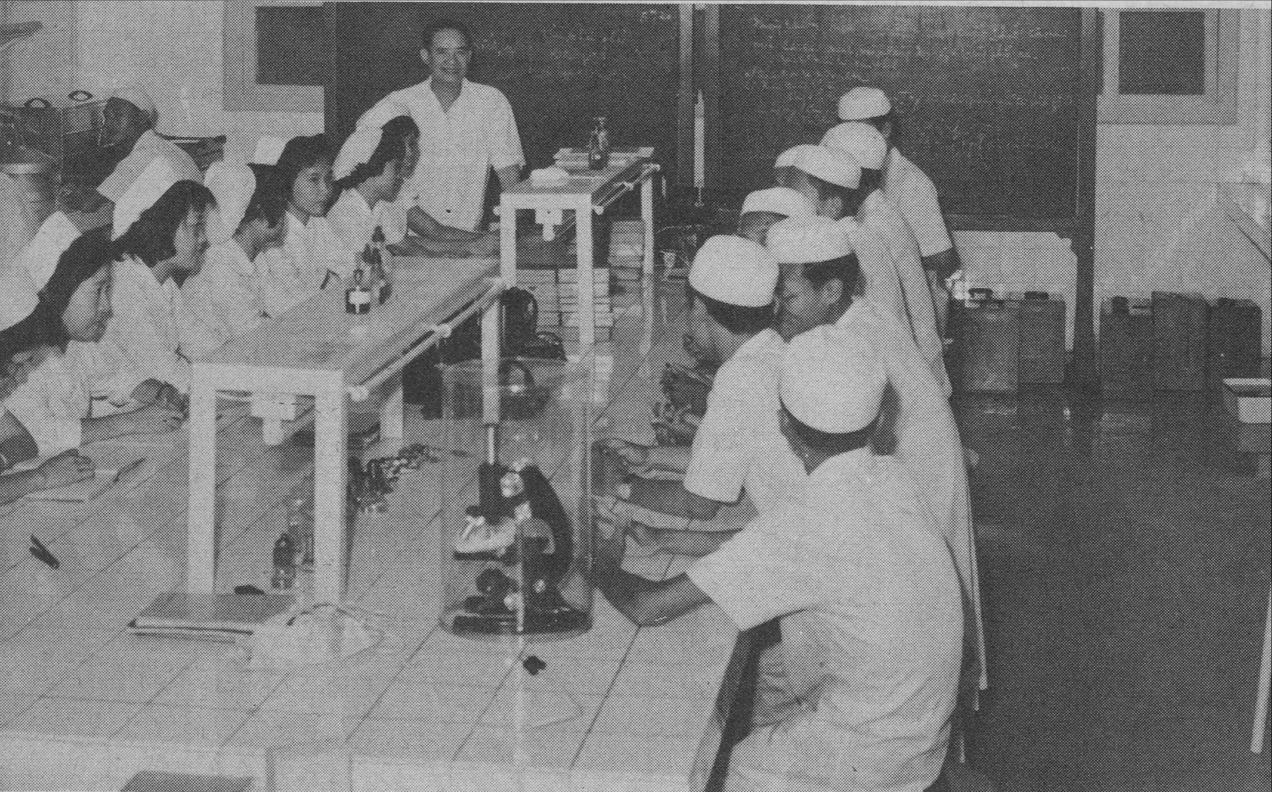 Research lab at the Saigon Pasteur Institute